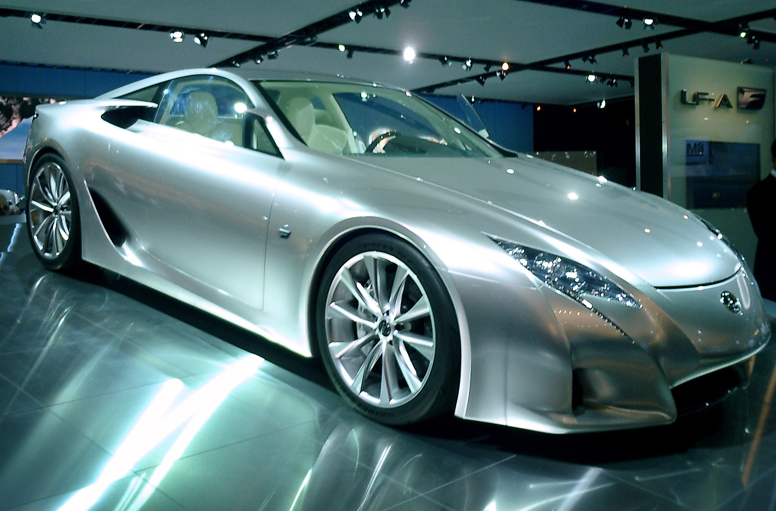 The Lexus LF-A at the Detroit, Michigan Auto Show in 2007